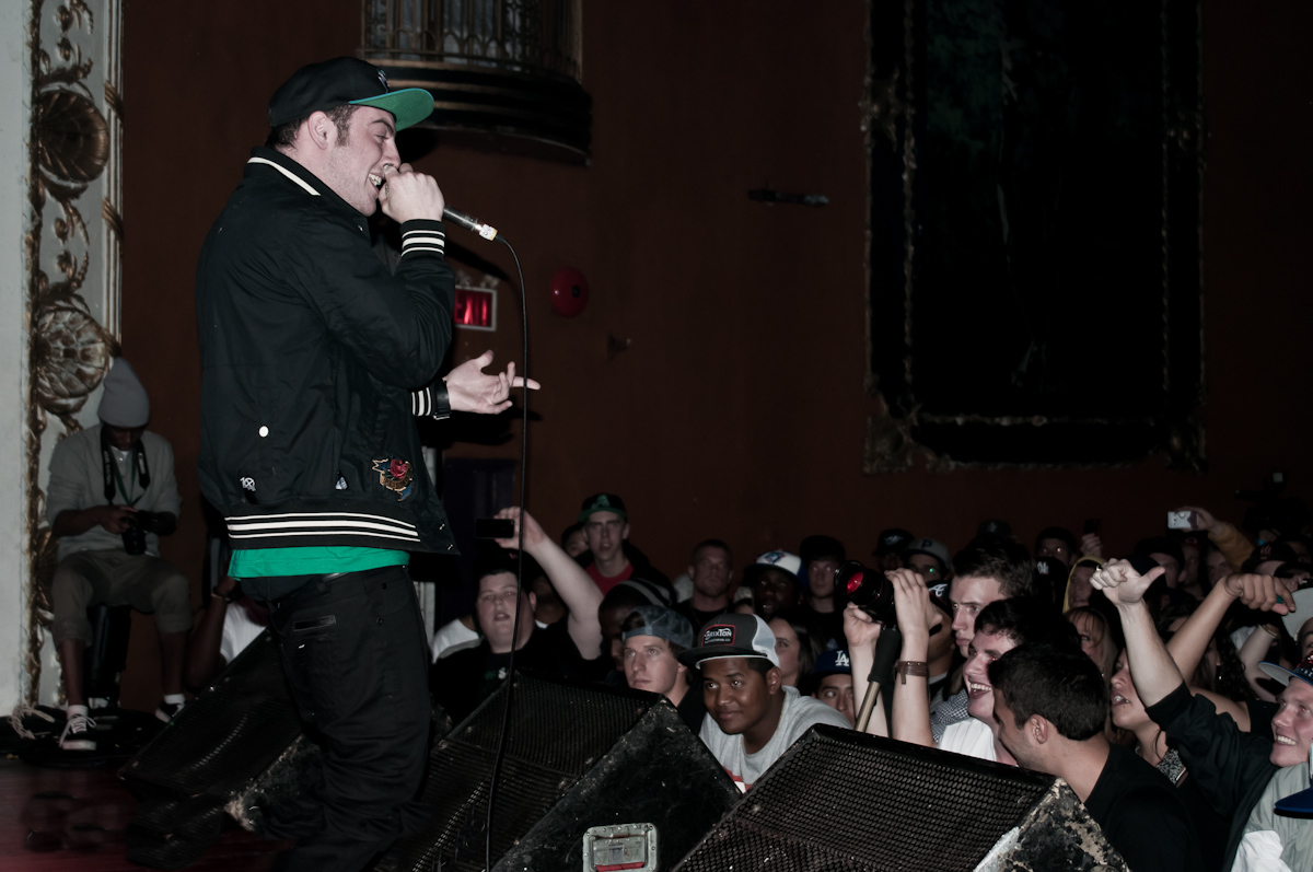 We interviewed Mac Miller in Toronto at the Smokers Tour. Check out the interview at